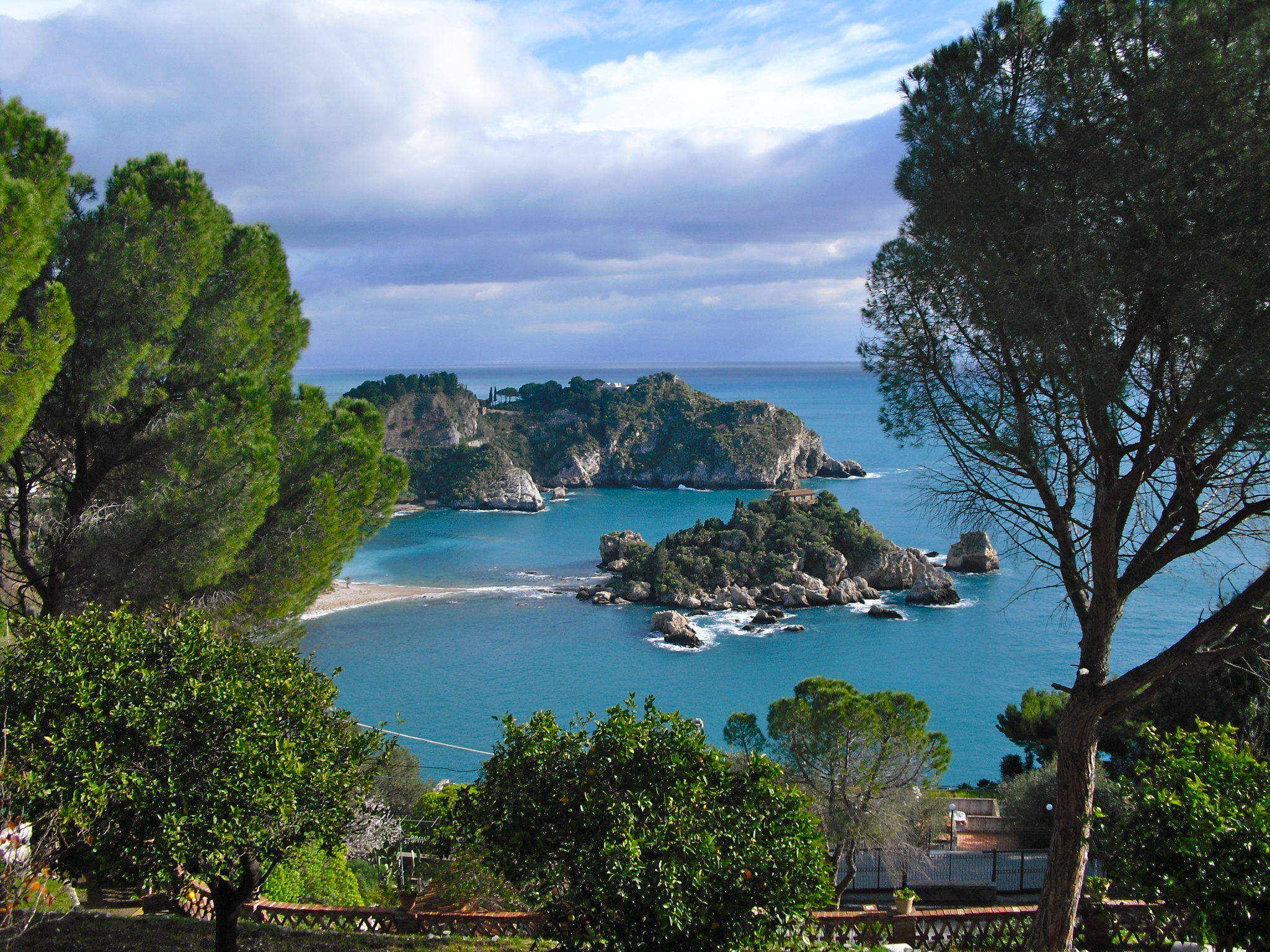 Isola Bella Island, Sicily, Italy